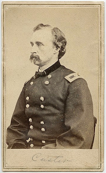 George Armstrong Custer